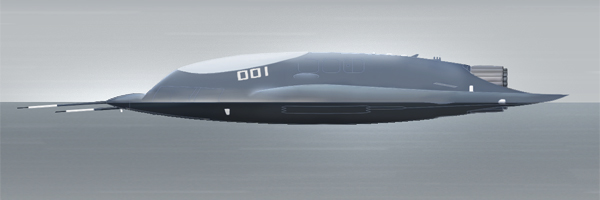 Sideview of Chinese UCAV "Sharp Sword".